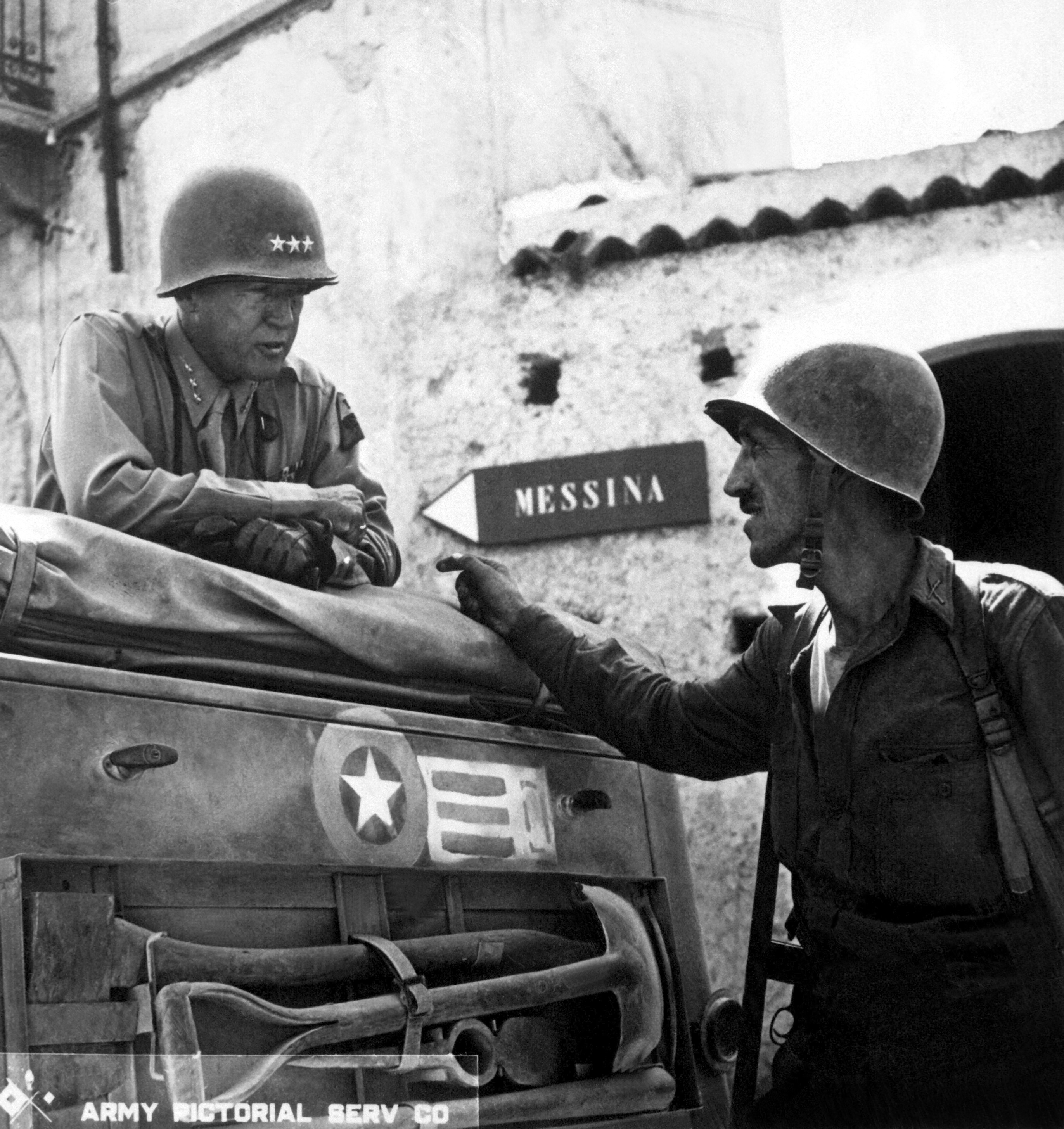 Lt. Col. Lyle Bernard, CO, 30th Inf. Regt., a prominent figure in the second daring amphibious landing behind enemy lines on Sicily's north coast, discusses military strategy with Lt. Gen. George S. Patton. Near Brolo. 1943. (Army ) Exact Date Shot Unknown . NARA FILE #: 111-SC-246532 WAR & CONFLICT BOOK #: 1024